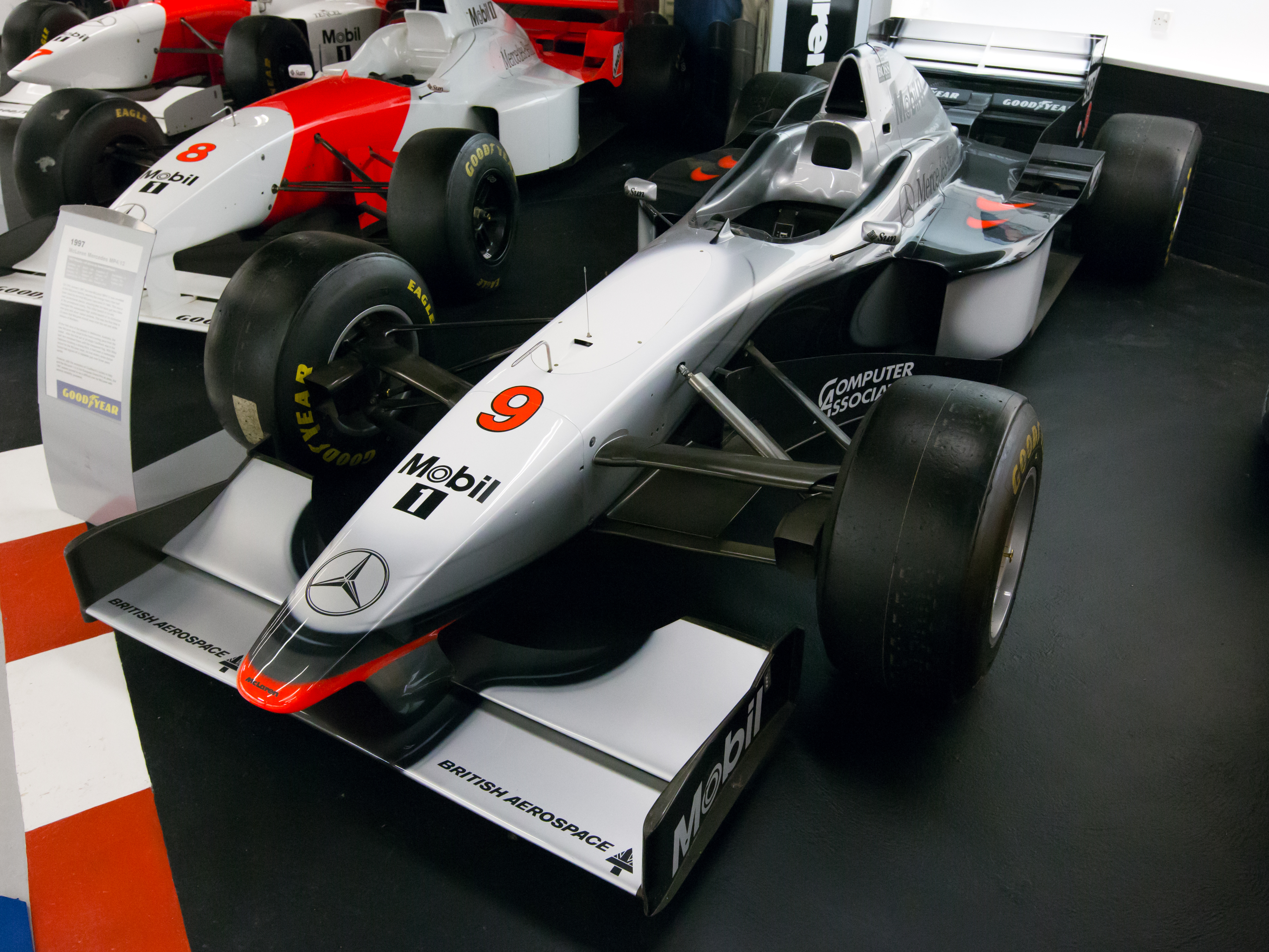 1997 McLaren MP4/12